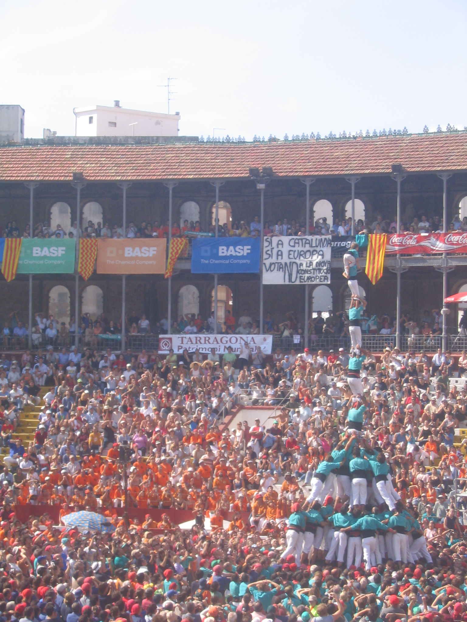 Pilar de 8 amb folre i manilles dels Castellers de Vilafranca. Concurs de tarragona, any 2004